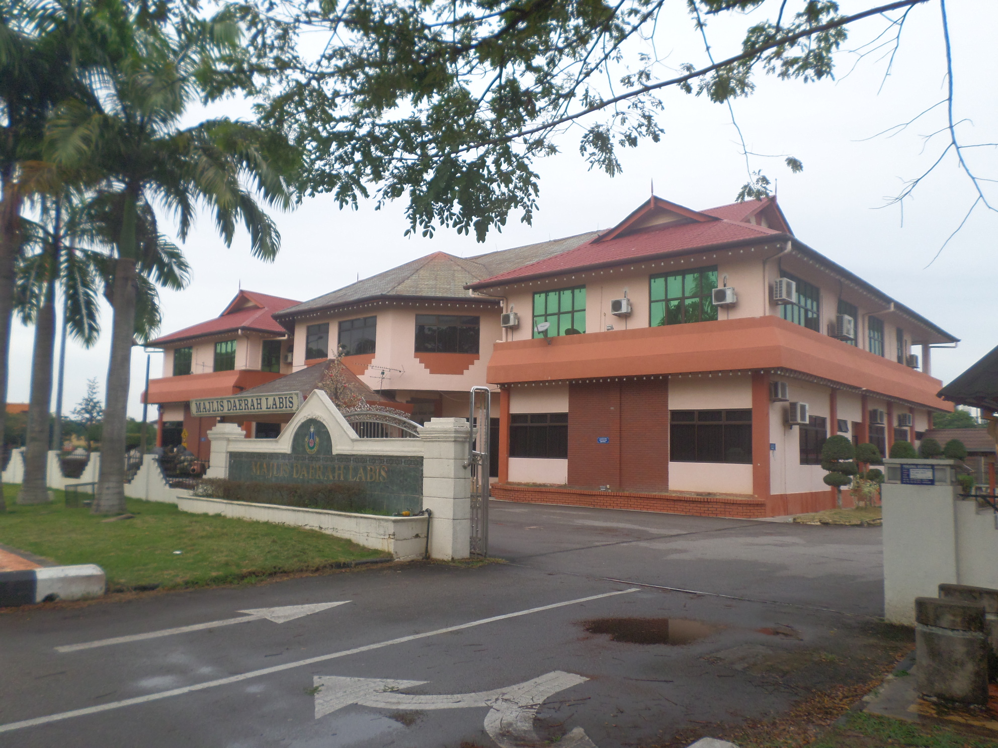 Labis District Council, Segamat, Johor, Malaysia